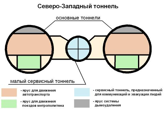 North-Western Tunnel